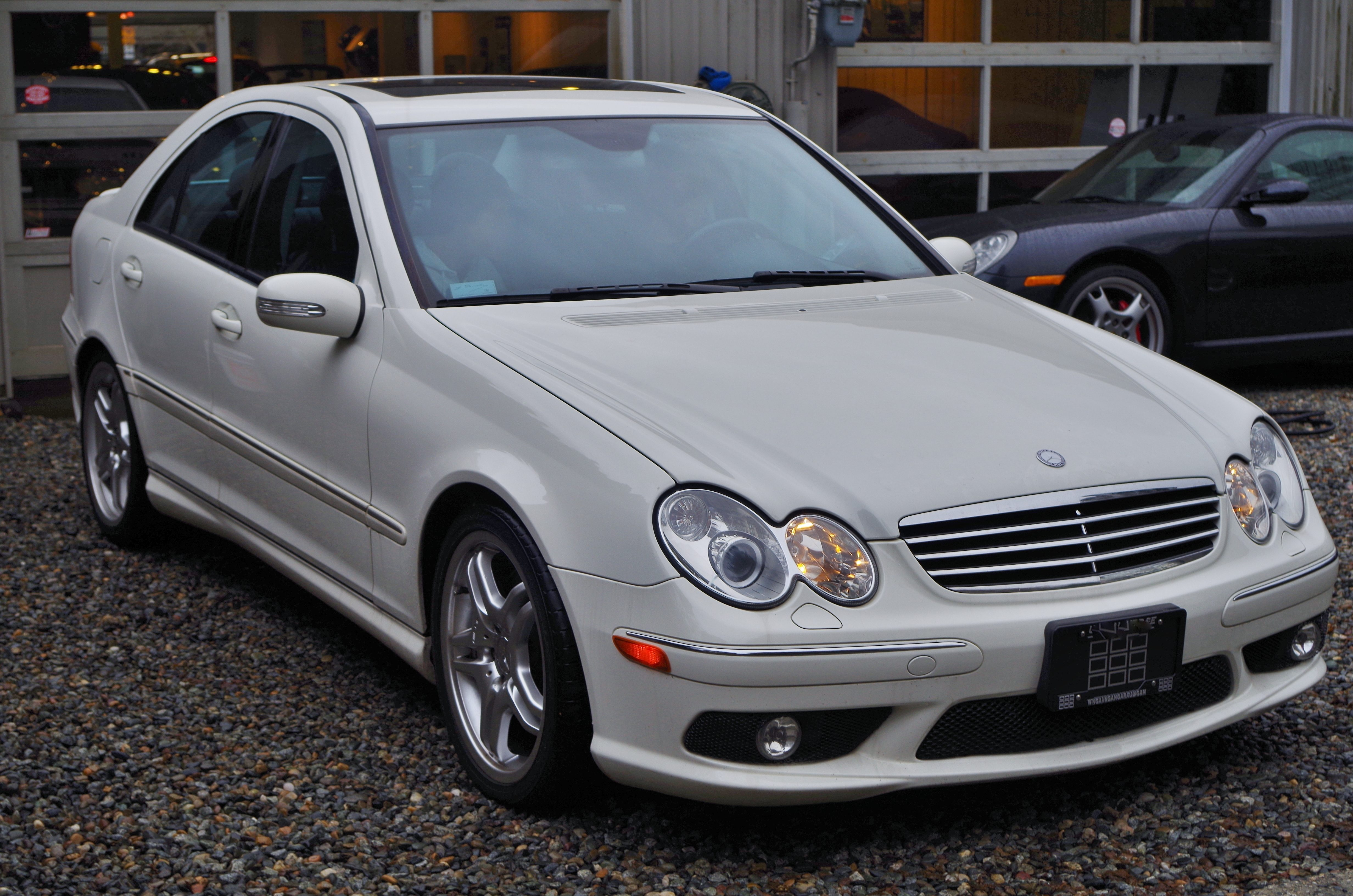 C55 AMG